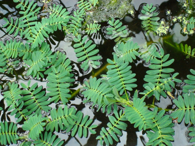 Picture of Aeschynomene fluitans